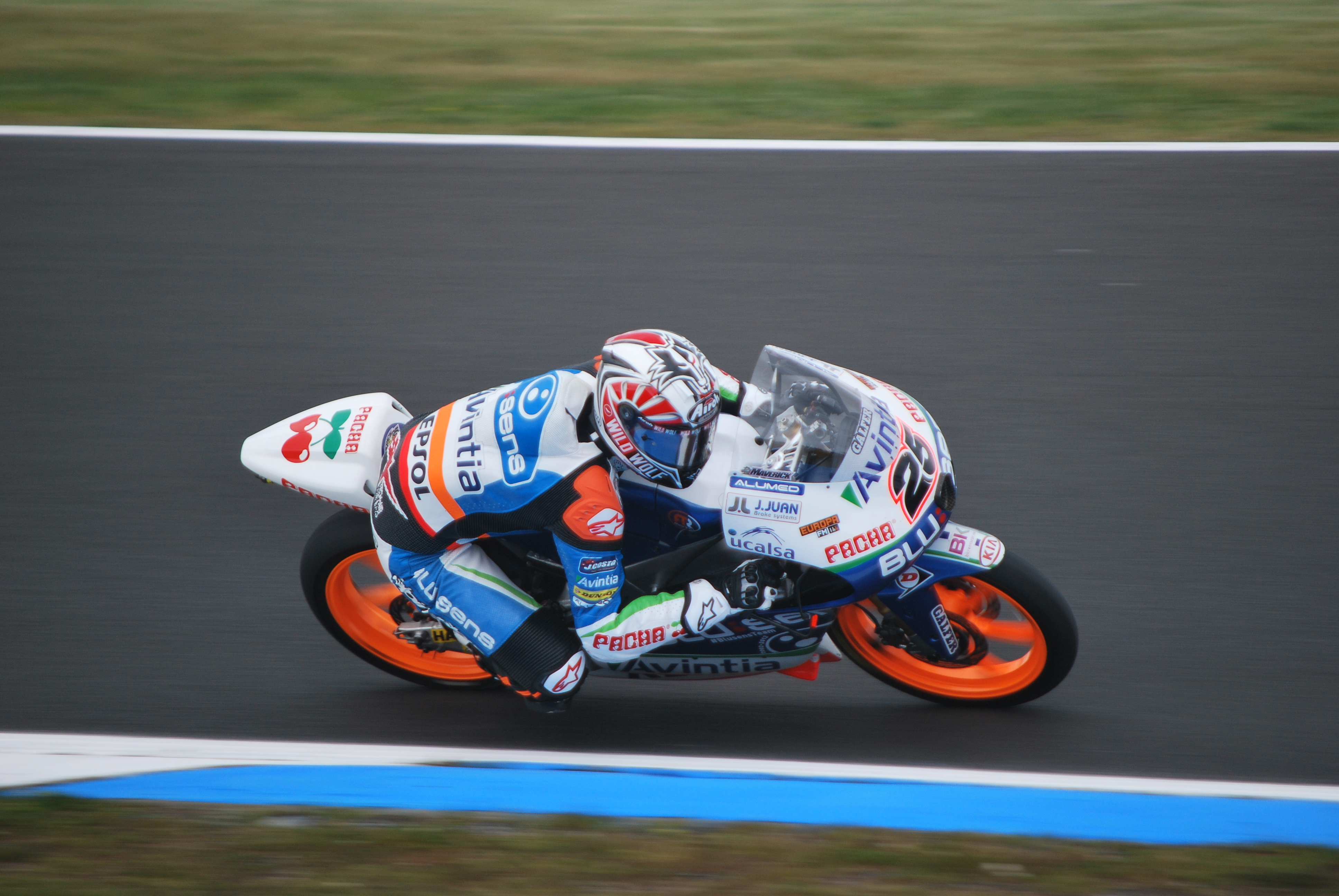 2012 AirAsia Australian Grand Prix - Moto3 - #25 Maverick Viñales - Blusens Avintia - FTR Honda